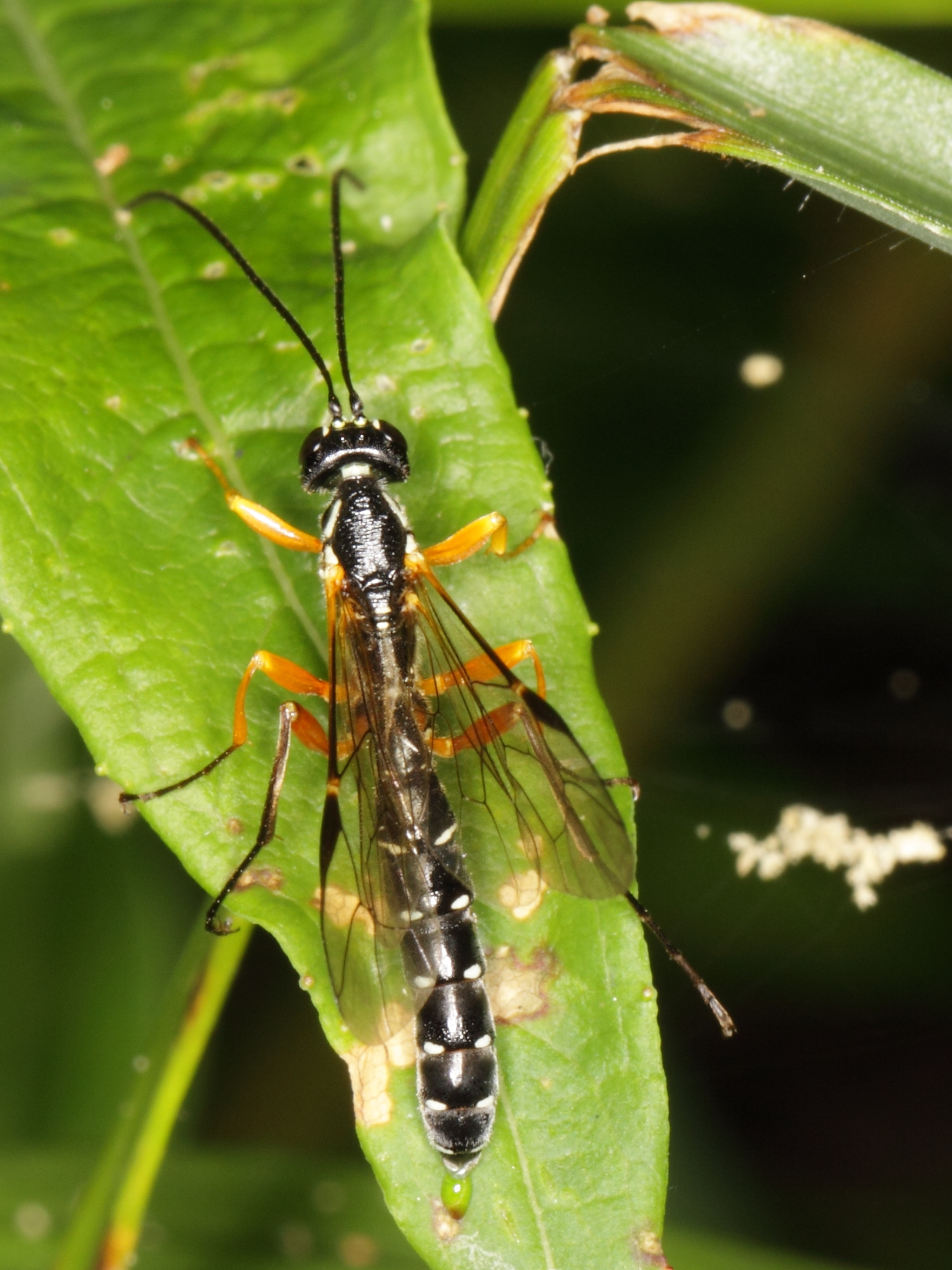 Phylum: Arthropoda Subphylum: Hexapoda Class: Insecta (insects, Insekten) Subclass: Pterygota Order: Hymenoptera (Hautflügler) Suborder: Apocrita (Taillenwaspen) Superfamily: Ichneumonoidea Family: Ichneumonidae (Ichneumoid wasps, Schlupfwespen) Subfamily: Rhyssinae (Holzwespen-Schlupfwespen) Genus: Rhyssa info: [det. "bleu.geo", 2012, based on this photo] Rhyssa persuasoria LINNAEUS, 1758, ♂ (Giant Ichneumon) [det. D&JP Balmer, 2012, based on photos] NE-Slovakia, High Tatras: vic. Starý Smokovec, ca. 1300m asl., 29.06.2012 IMG_1729